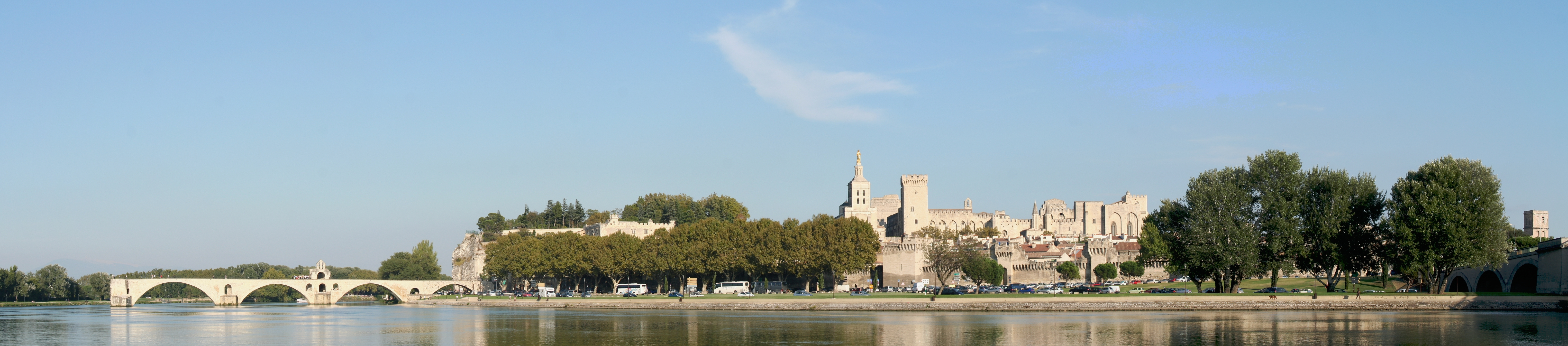 View of Avignon from Ile de la Barthelasse